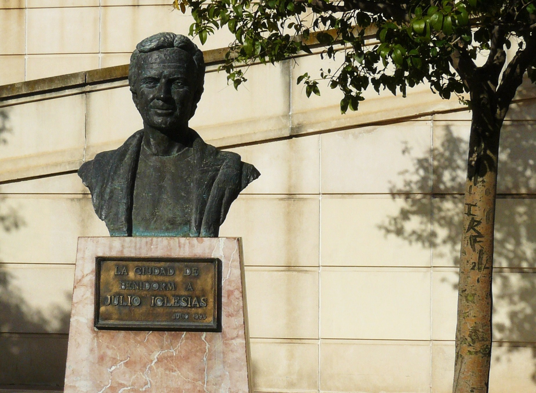 Monument of Julio Iglesias in Benidorm.